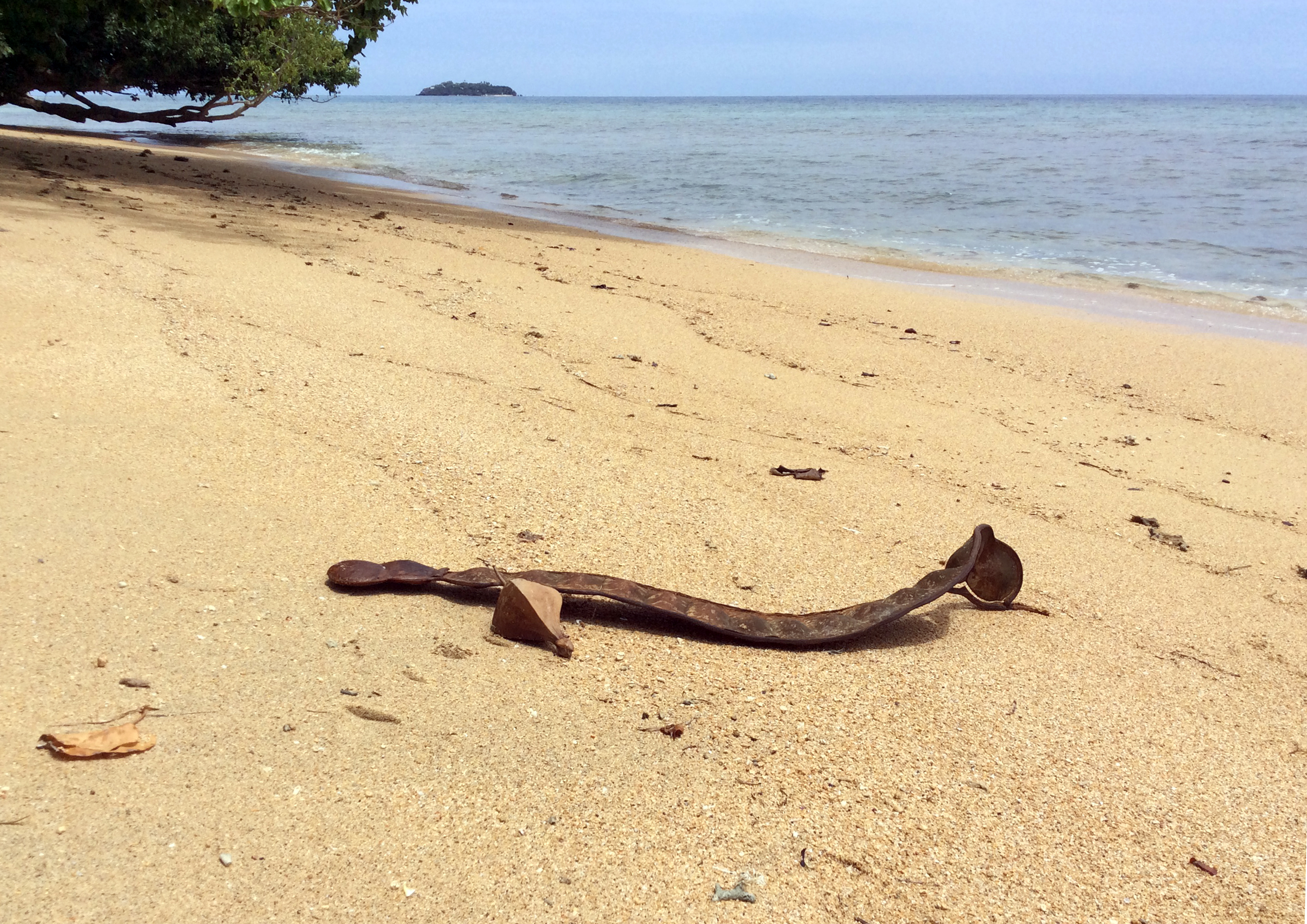 Fruits of Entada phaseoloides and of Barringtonia asiatica on the beach of Lawaki, Beqa Island, Fiji.